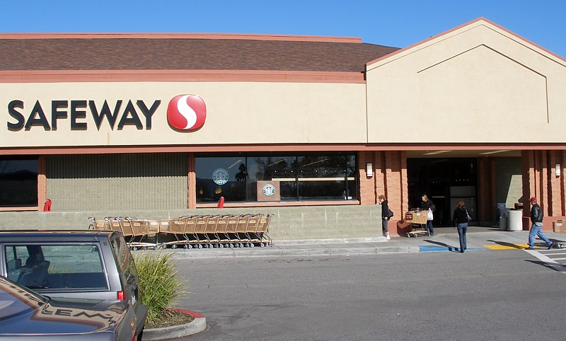 A Safeway Inc. supermarket in Sunnyvale. Photographed on January 22, 2006 by user Coolcaesar.